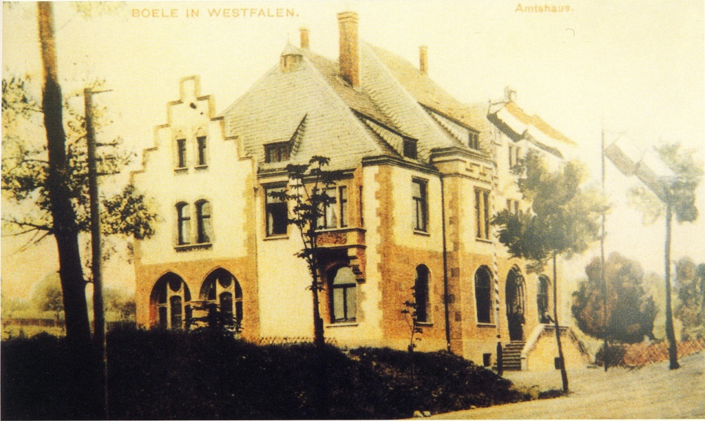 The house of departments in Boele, a borough of the city of Hagen in North Rhine-Westphalia, Germany.